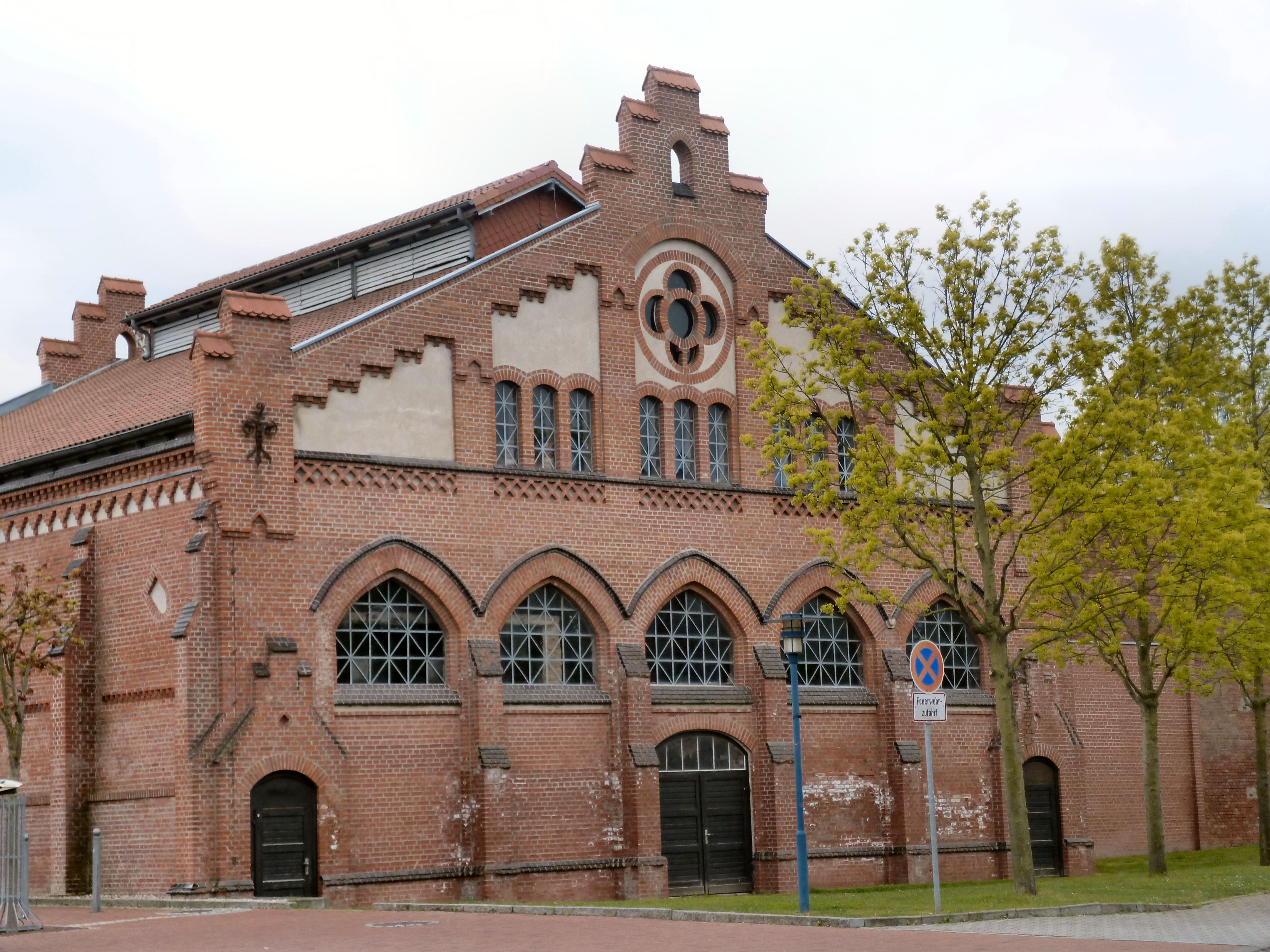 Former Waterworks Beesen, today part of the Maya mare spa, Halle (Saale)